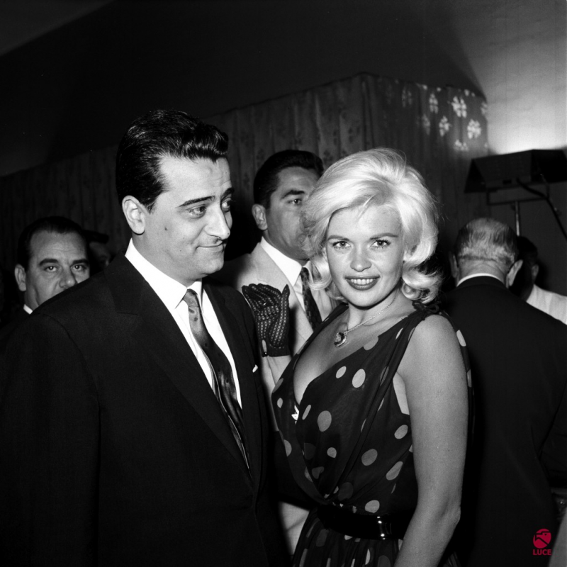 Enrico Bomba and Jayne Mansfield at a party in Rome